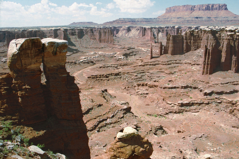 Canyonlands National Park, Utah, USA, Monument Basin from White Rim Road